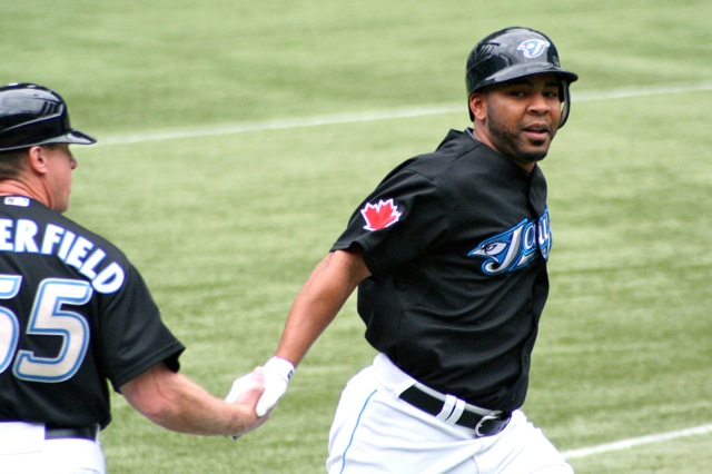 Edwin Encarnacion, 1B/3B/DH for the Toronto Blue Jays, 2011 Season